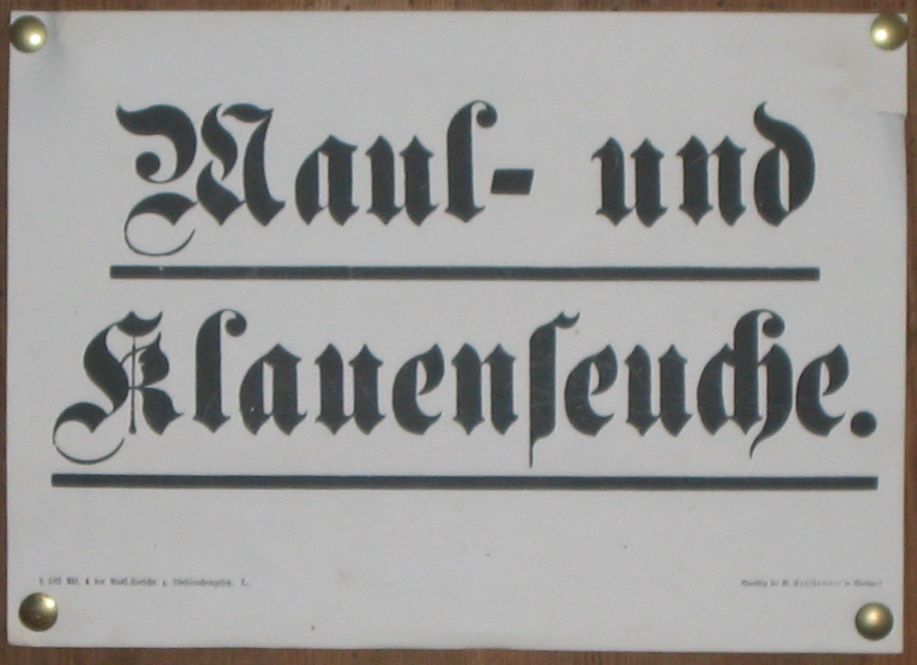 Foot-and-mouth disease-sign at the Freilichtmuseum Neuhausen ob Eck